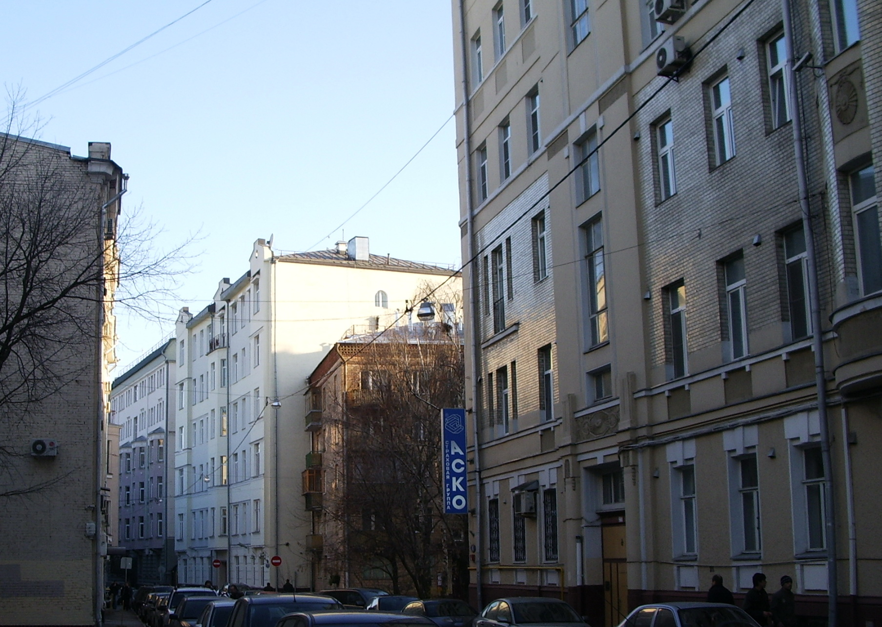 Moscow, Skatertny Lane 5, 7, 11